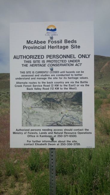 Image of sign at gate to McAbee Fossil Beds.